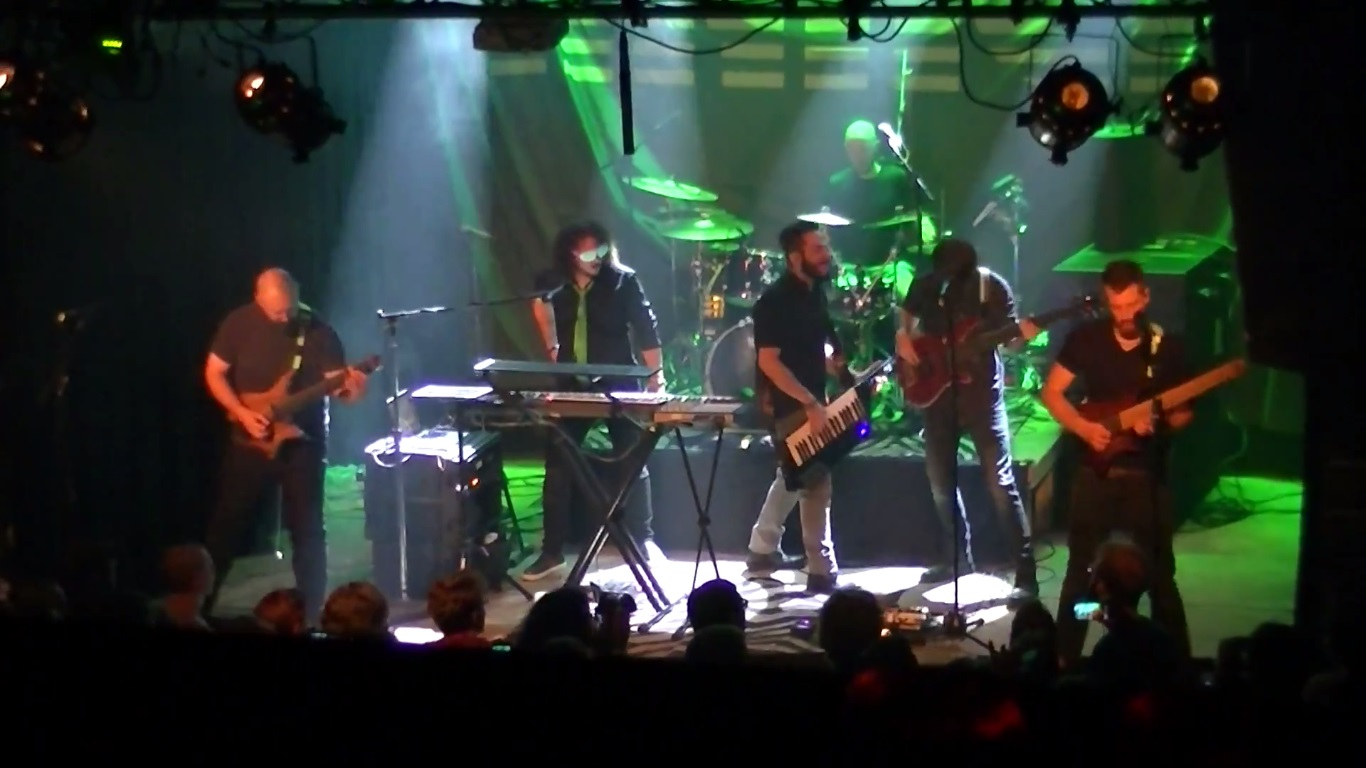 Haken Live at Reggie's Rock Club, Chicago, August 30, 2016